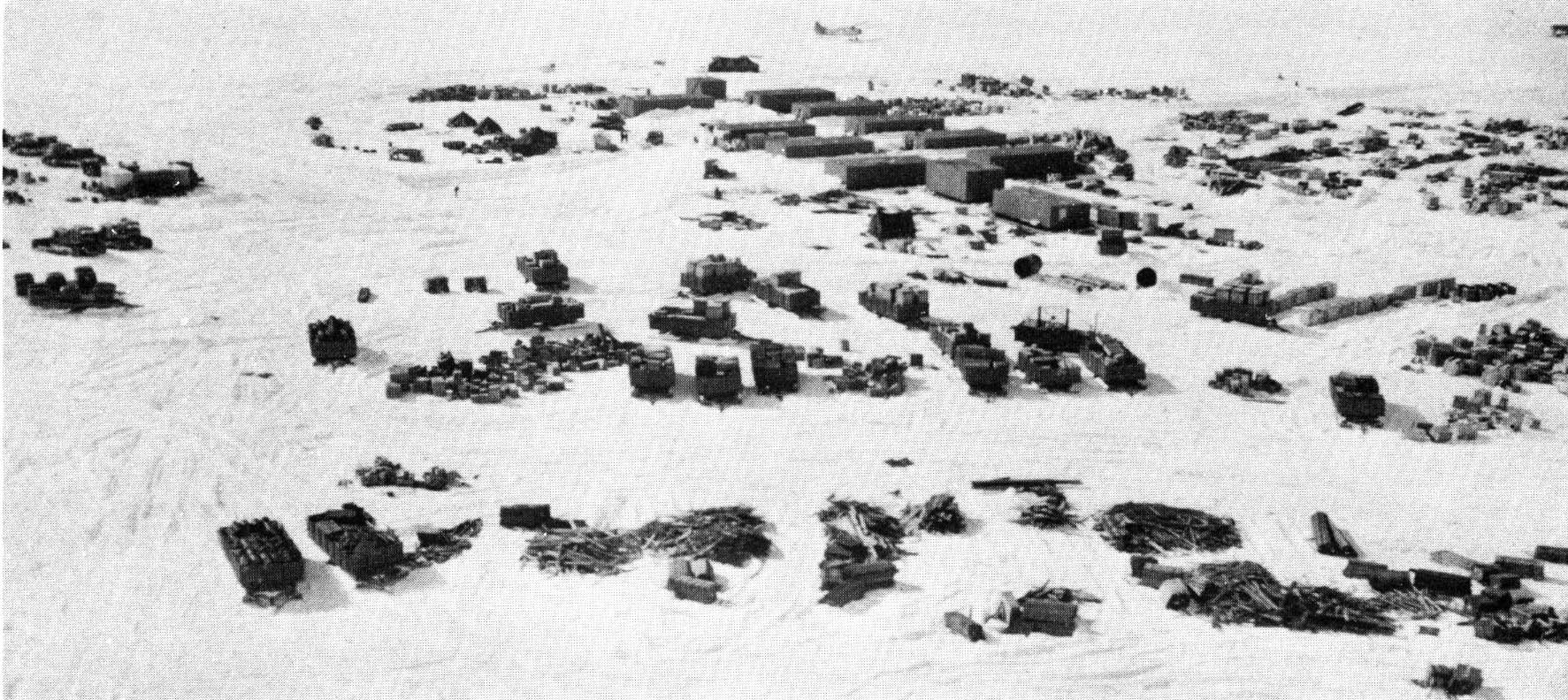 Little America V during construction stage. Scattered supplies reflect hasty evacuation of the supply dump, located on bay ice. Supply dump was moved when ice gave indication of breaking up. The supplies, seen in picture were segregated and restored before task force ships departed.